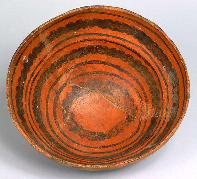 A Chaco Anasazi bowl dating from 900-1100 AD and excavated from site Bc 51 in the northern San Juan Basin (New Mexico, United States).